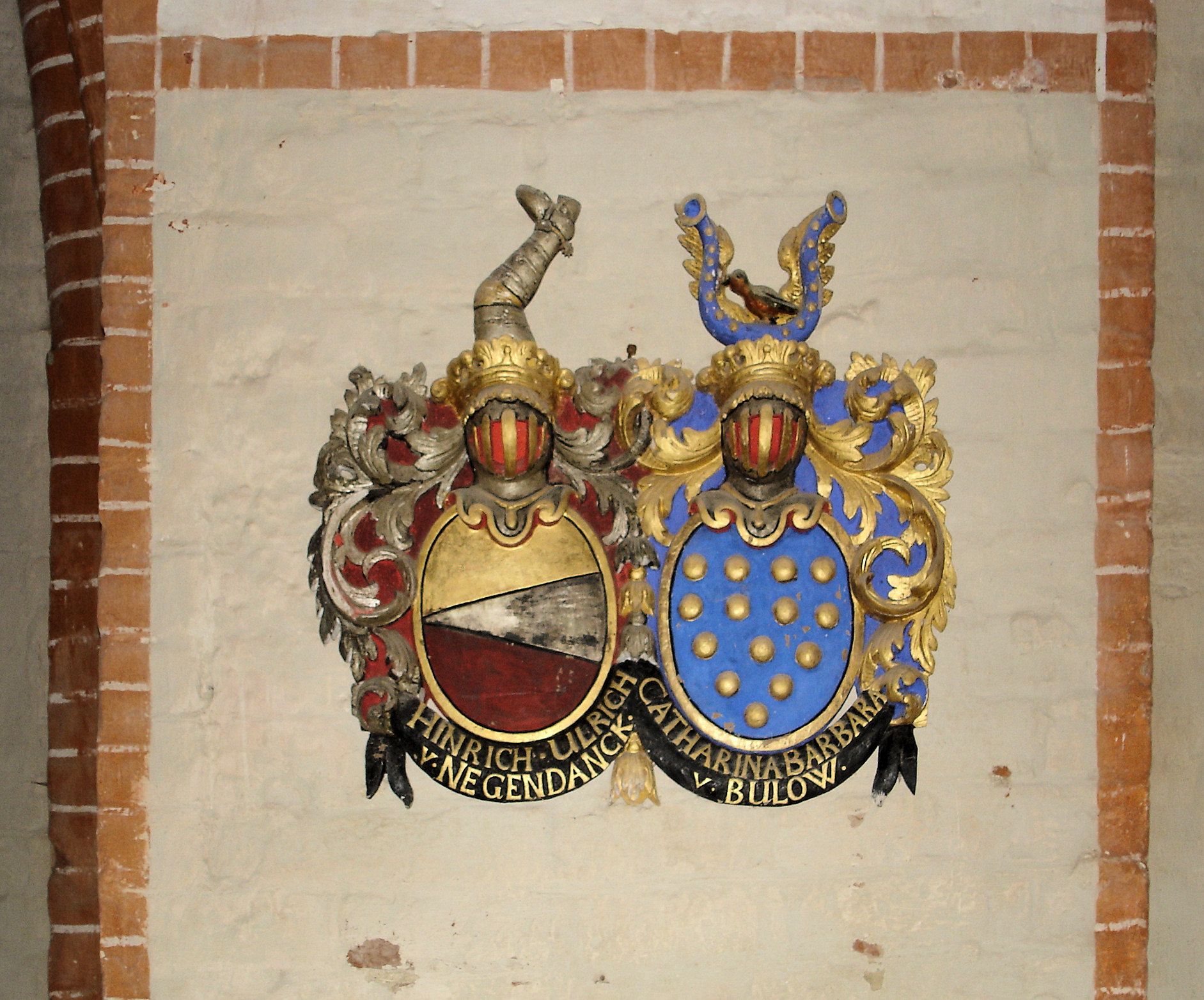 Church in Proseken, Mecklenburg, Germany